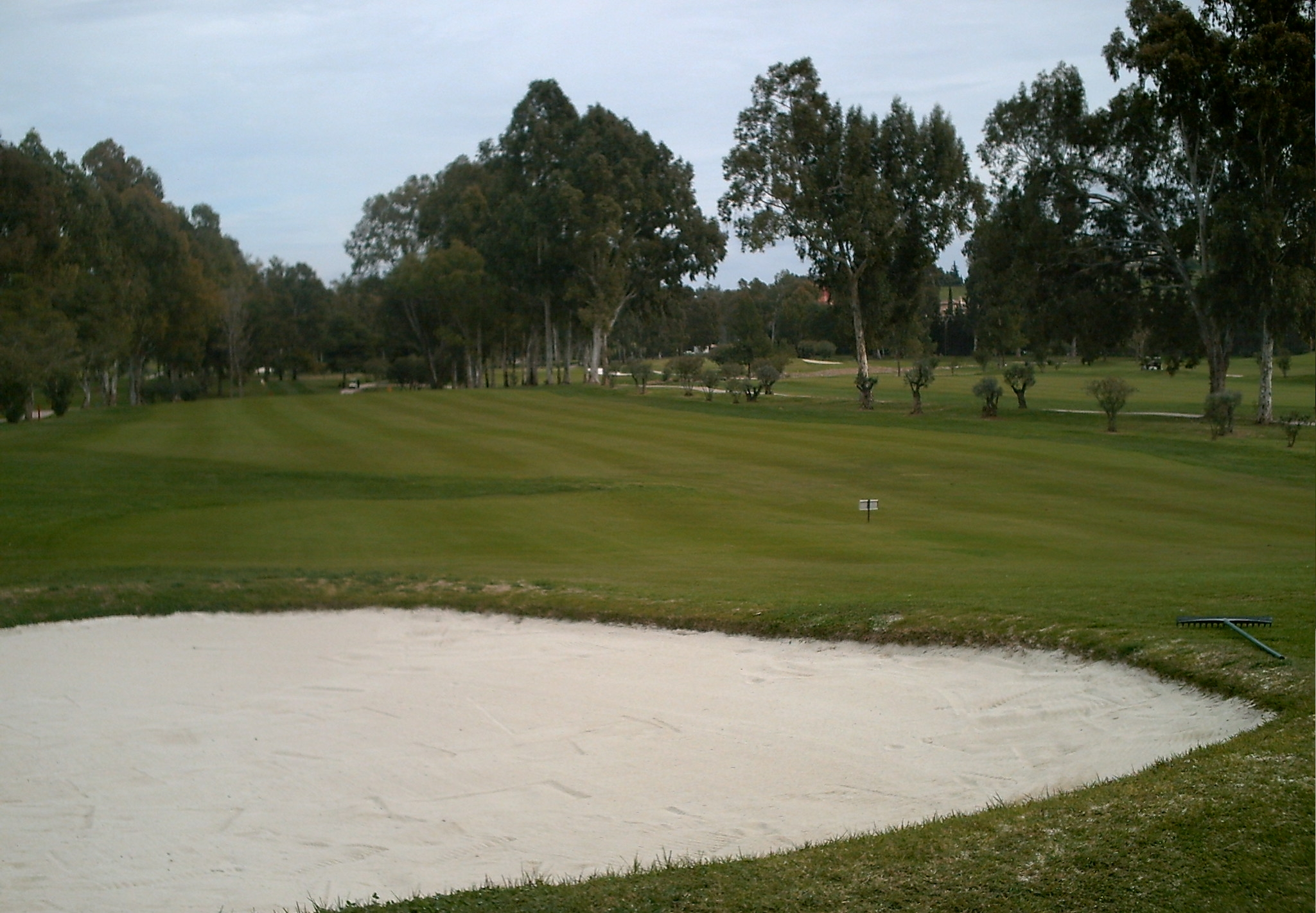 Atalaya golf course in Estepona, Andalusia